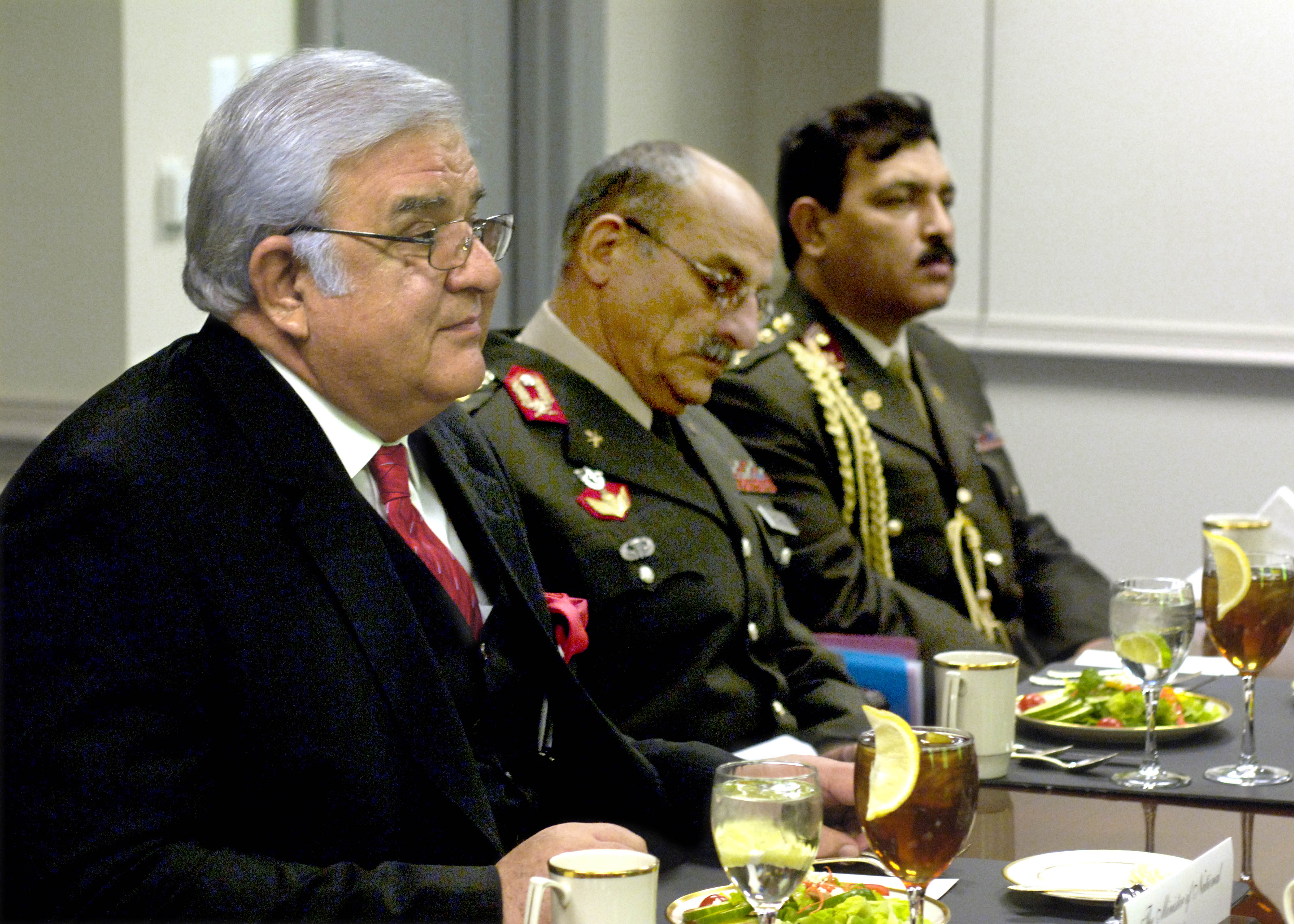 Afghan Minister of Defense Abdul Rahim Wardak (left) meets with Secretary of Defense Donald H. Rumsfeld in the Pentagon to discuss the current situation in Afghanistan on Nov. 21, 2006. Wardak is joined by Afghan National Army Chief of Operations Lt. Gen. Sher Mohammed Karimi (center), and Aide to the Minister Col. Shah Mahmood Rauf Wardak. DoD photo by R. D. Ward. (Released)